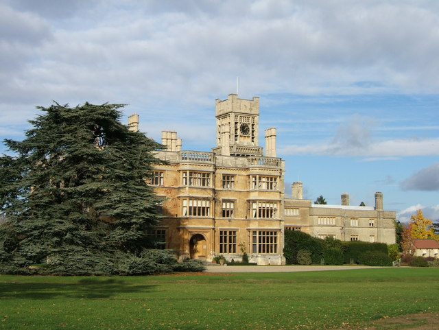 Shuttleworth Agricultural College. Shuttleworth College[1] was founded in 1944 as part of the Richard Ormonde Shuttleworth Remembrance Trust. Richard Shuttleworth, the owner of the Old Warden Estate in Bedfordshire, England was killed in 1940 while serving with the Royal Air Force.